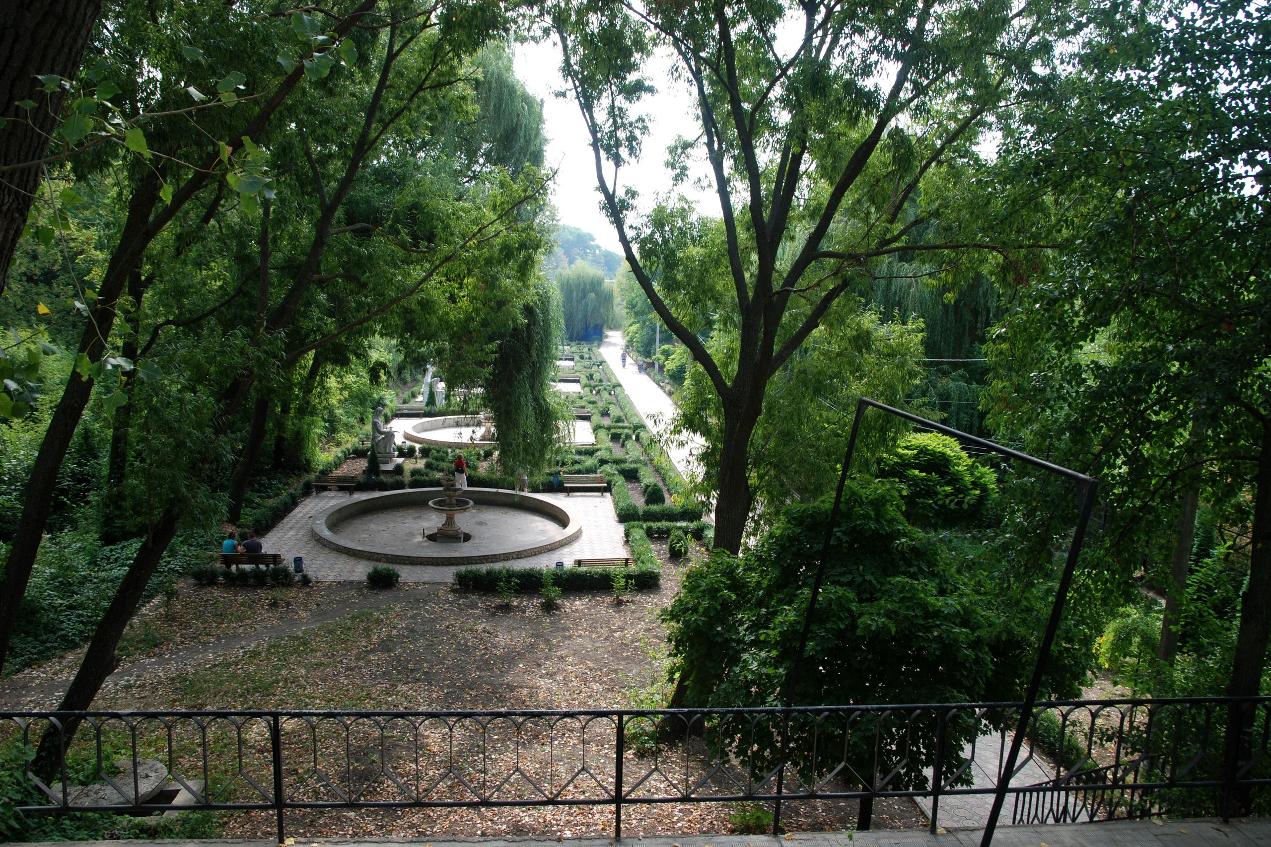 Edineț, park